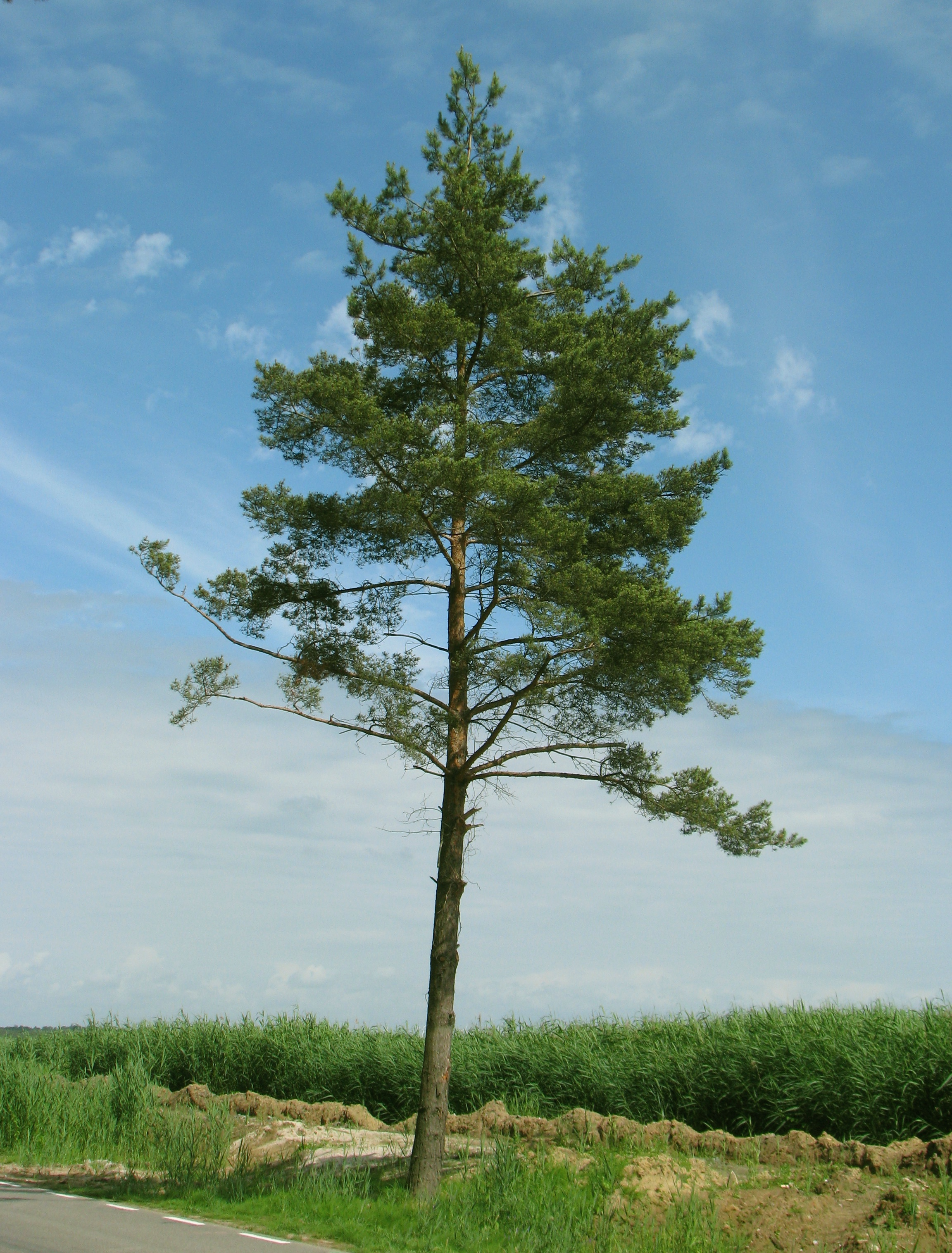 Scots pine (Pinus sylvestris), a natural tree growing by the Jamno lake between Łazy and Mielno, Poland.